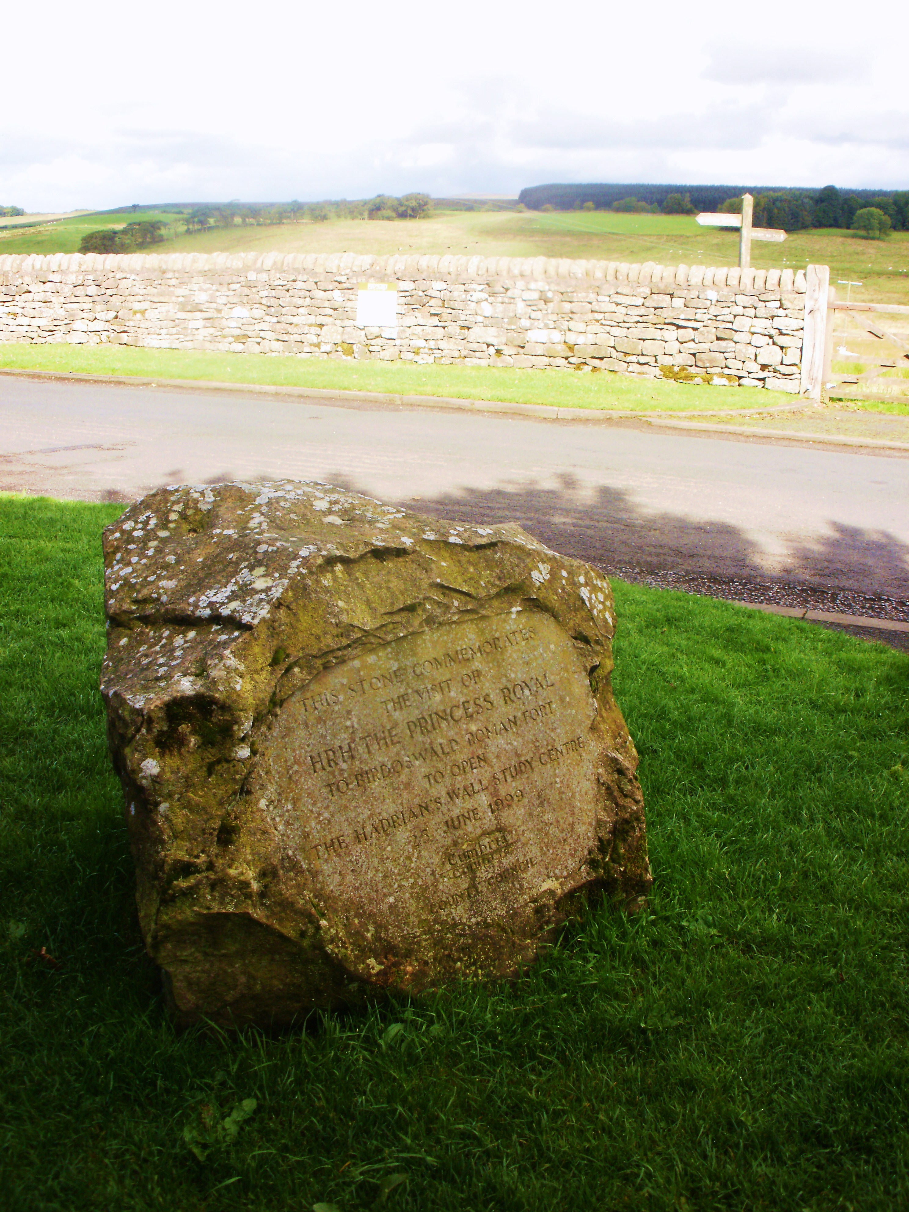 Stone erected to commemorate the opening of the visitor's centre at Birdoswald Roman Fort, along Hadrian's Wall in Northumberland, England, which occured in 1999.